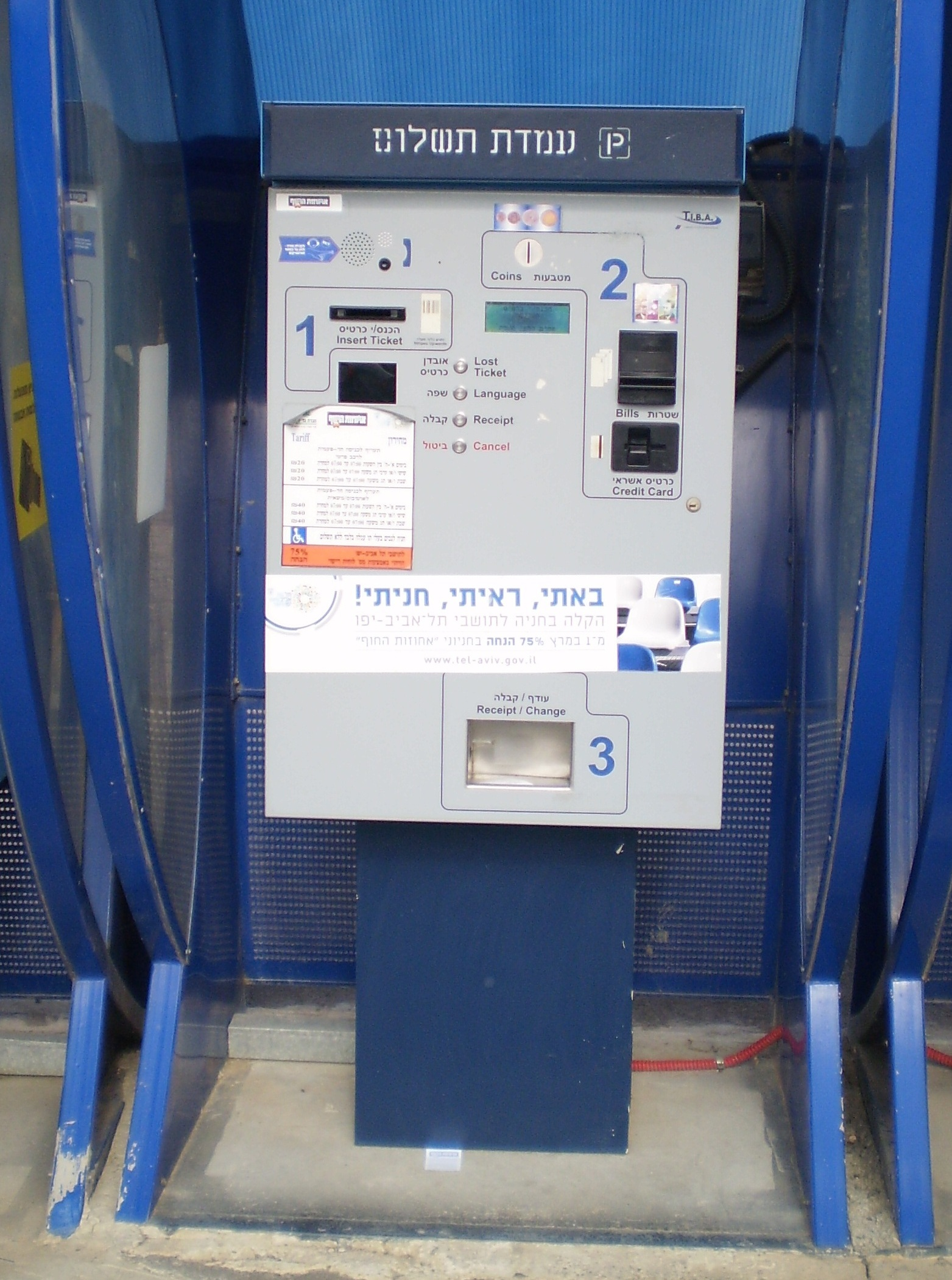 Payment machine